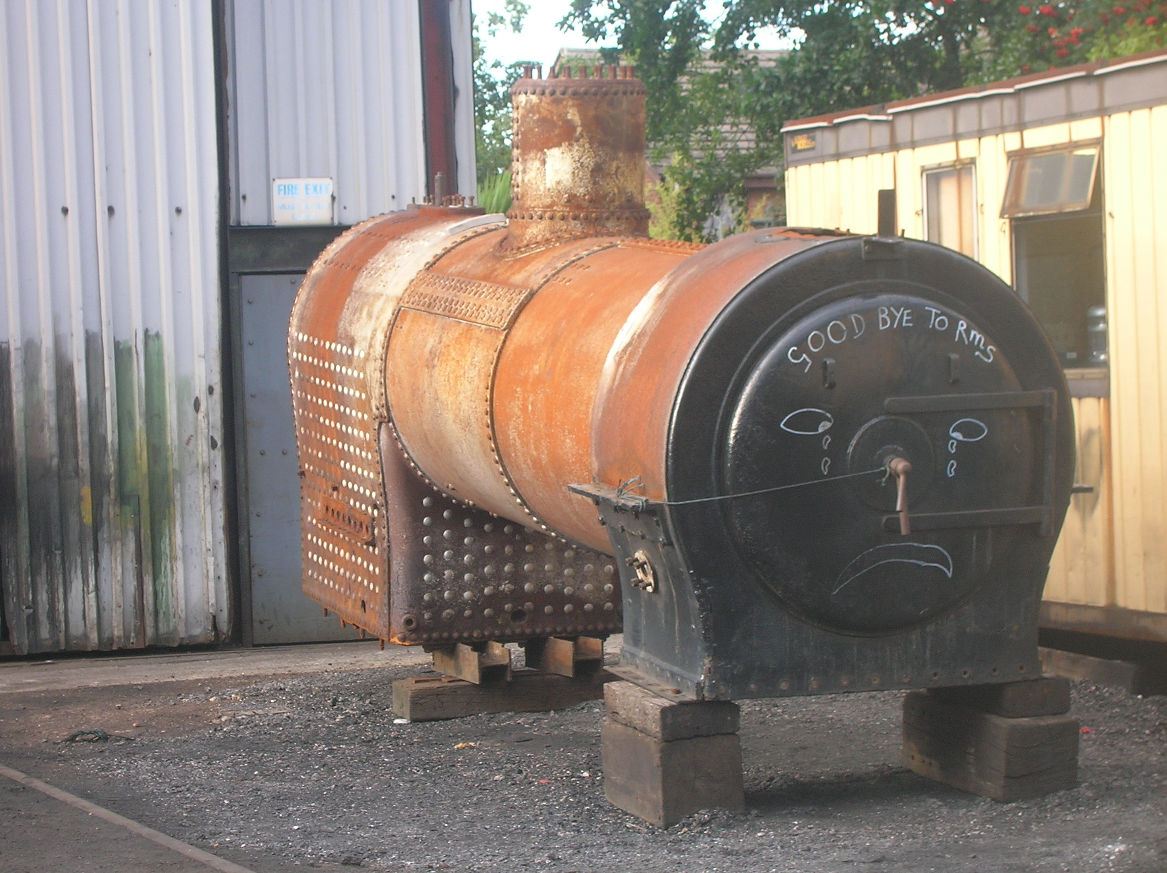 This is a picture of a Hunslet Austeritiy 0-6-0ST, re-uploaded with the right information for the page List of Great Central Railway locomotives and possibly the Commons.